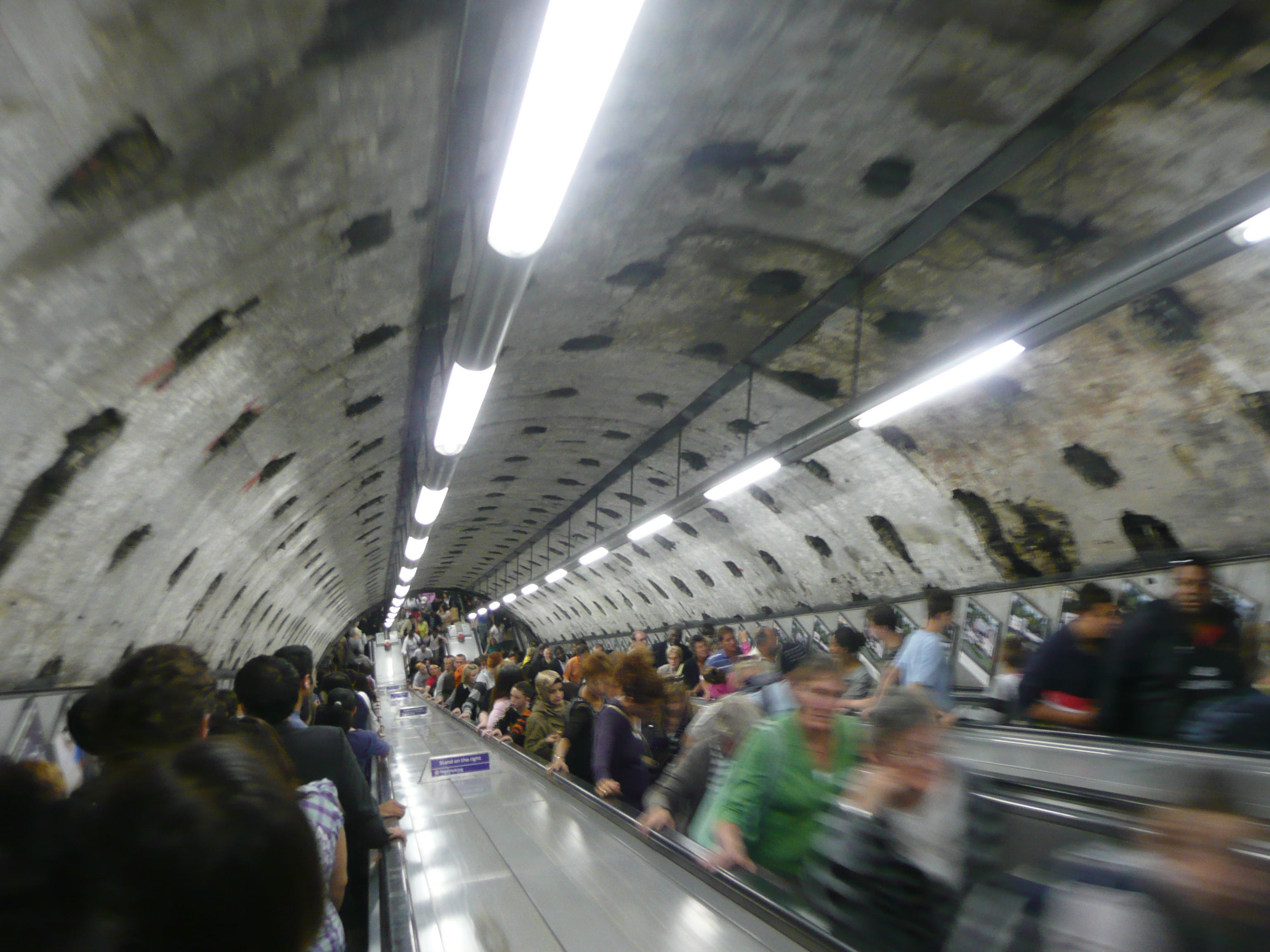 Escalators at King's Cross St. Pancras tube station, London 2008